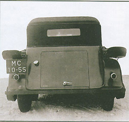 Soviet experimental half-track car GAZ-VM with phaeton body during the state tests, back view.